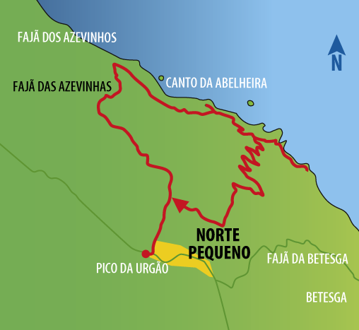 PRC6SJO - Trilho do Norte Pequeno